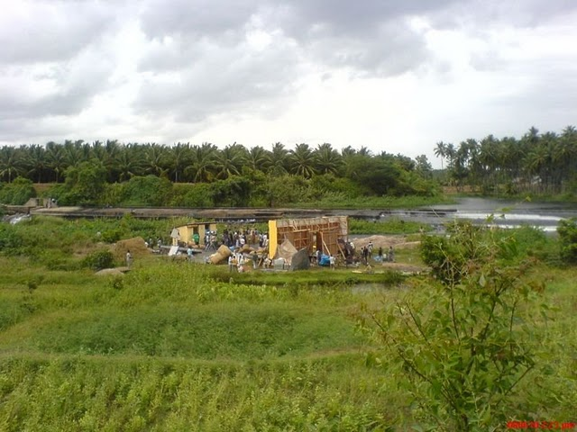 Villu - In the making